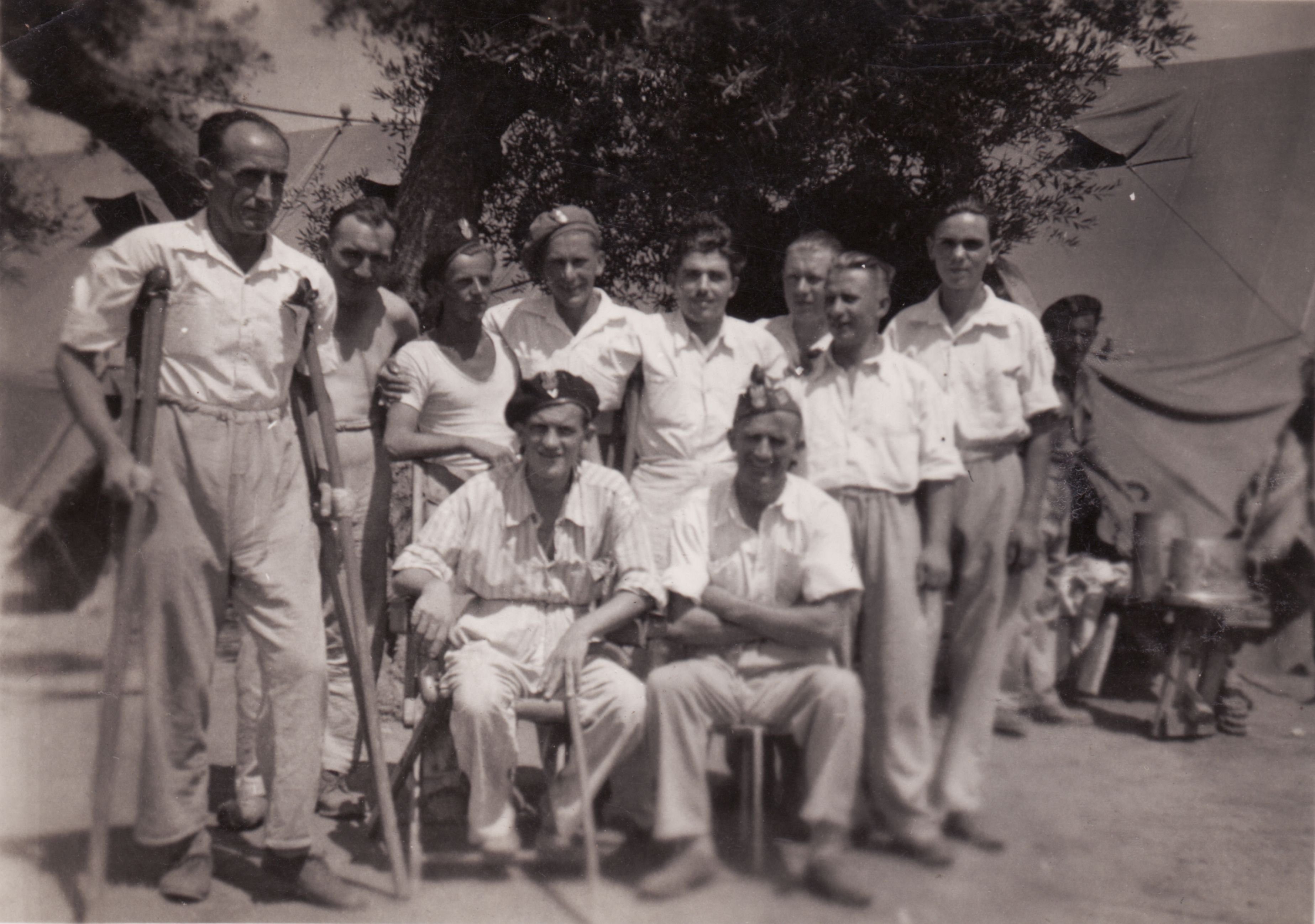 Polish II Corps field hospital in Palagiano, Italy.